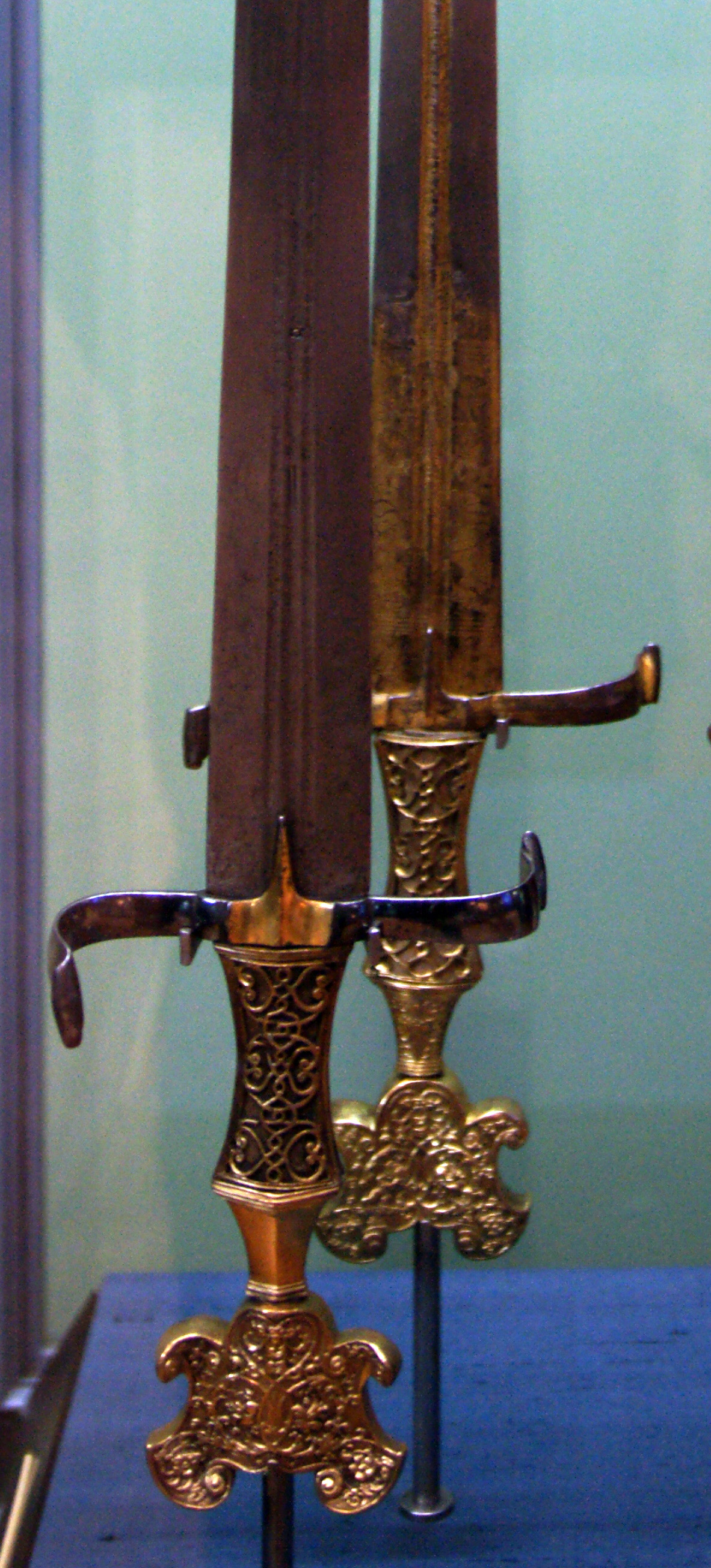 Gold-engraved hilts and part of the blades of two swords of the knightly order of St. Peter, gifts by Pope Julius II to Emperor Maximilian I, 1509